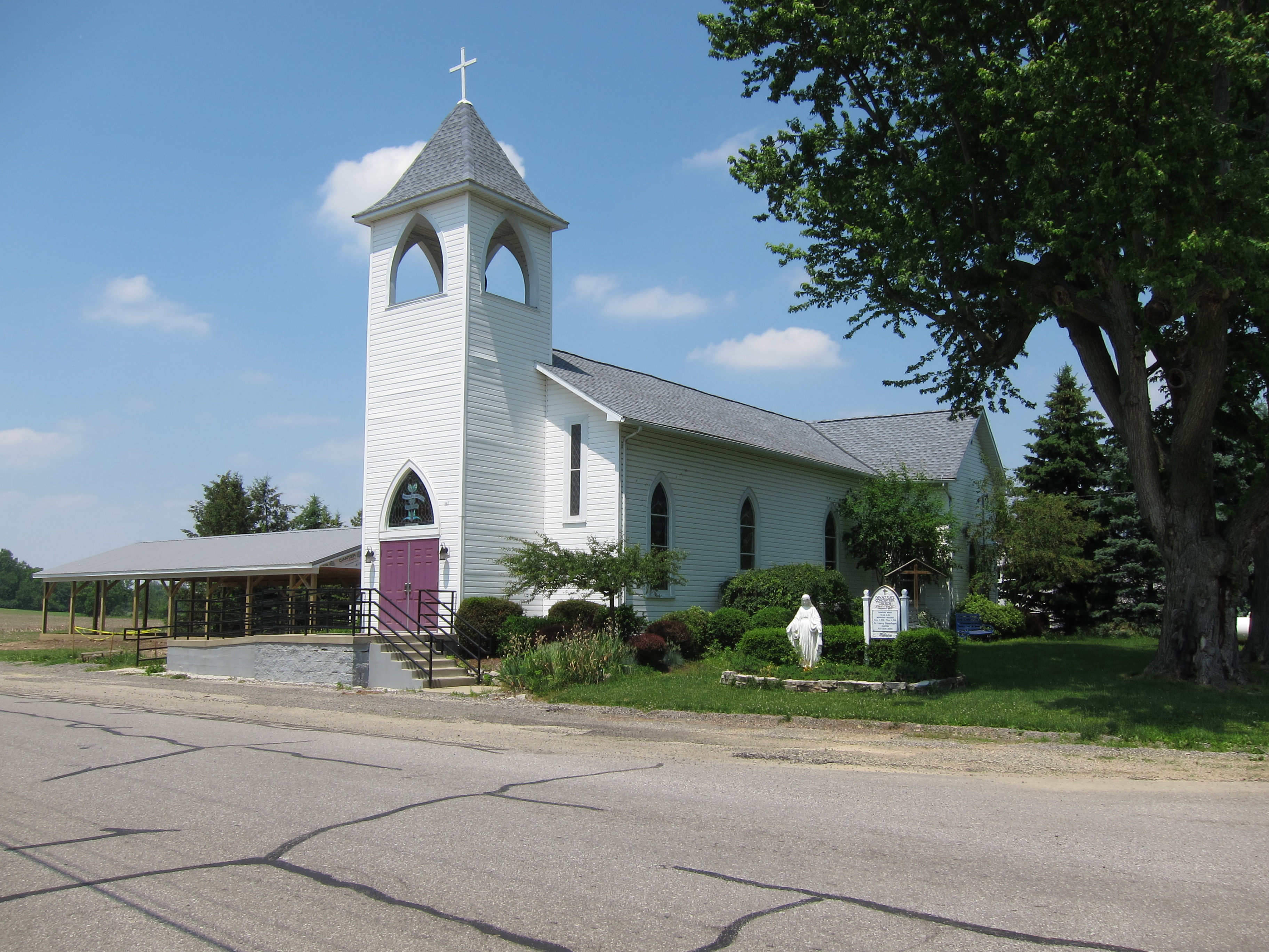 Immaculate Conception Catholic Church (North Lewisburg, Ohio) - exterior, front quarter view